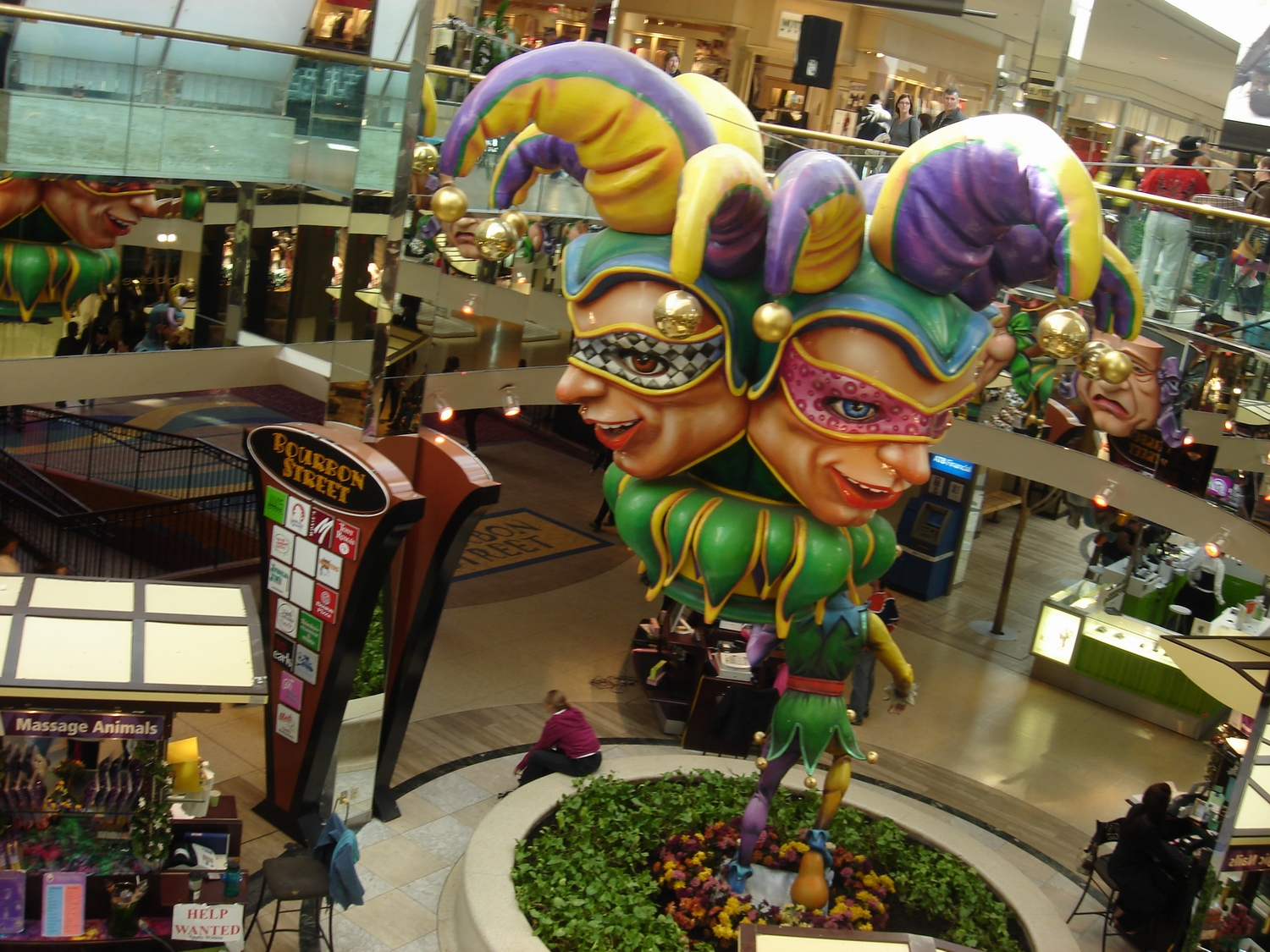 Masks at Bourbon Street, West Edmonton Mall, Edmonton, Alberta, Canada